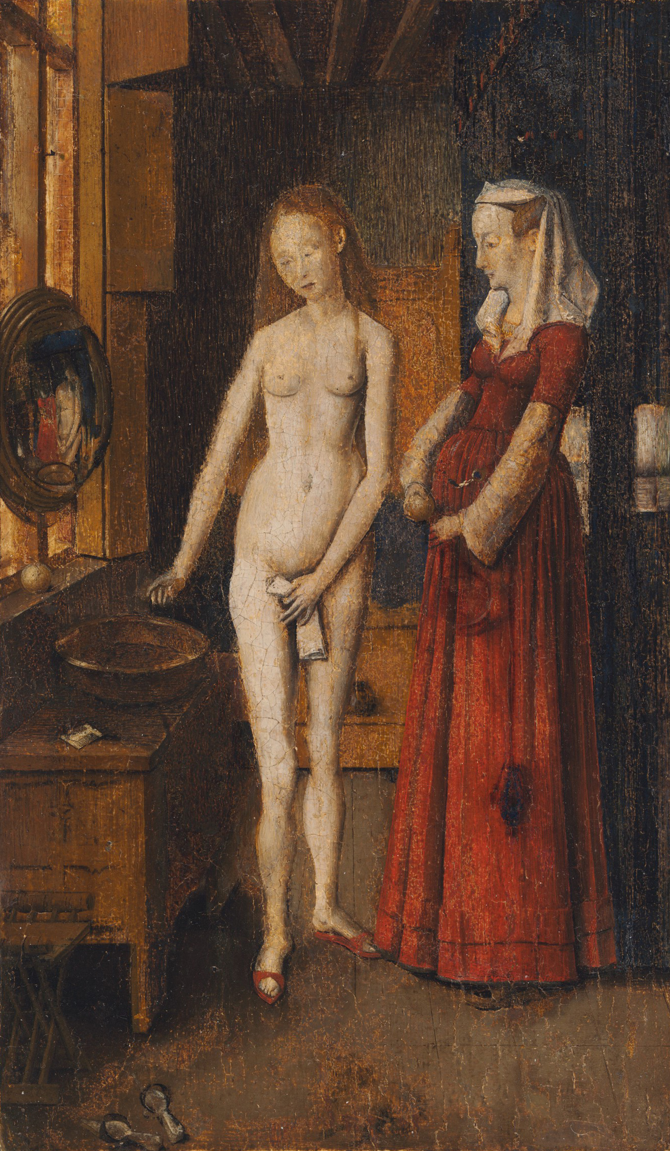 Possible copy after a lost original